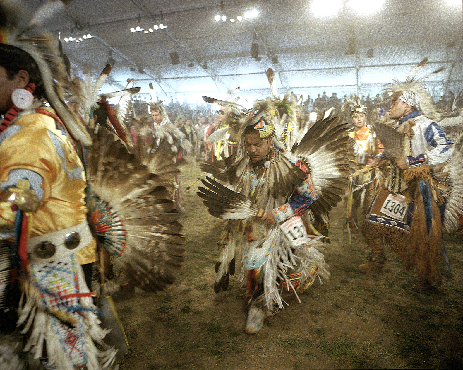 Description: Powwows are large social gatherings of Native Americans who follow traditional dances started centuries ago by their ancestors, and which continually evolve to include contemporary aspects. These events of drum music, dancing, singing, artistry and food, are attended by Natives and non-Natives, all of whom join in the dancing and take advantage of the opportunity to see old friends and teach the traditional ways to a younger generation. During the National Powwow, the audience see dancers in full regalia compete in several dance categories, including Men and Women's Golden Age (ages 50 and older); Men's Fancy Dance, Grass and Traditional (Northern and Southern); Women's Jingle Dress, Fancy Shawl, and Traditional (Northern and Southern); Teens (13-17); Juniors (6-12) and Tiny Tots (ages 5 and younger). The drum groups are the heart of all powwows and provide the pulsating and thunderous beats that accompany a dancer's every movement. The powwow is led by three "host drums" that showcase three distinct styles of singing (Northern, Southern and contemporary) and represent the best examples of each style. The drum contest highlights groups of 10 to 12 members each, and they sing traditional family songs that are passed down orally from one generation to the next. The National Museum of the American Indian sponsored the National Powwow in 2002, 2005, and 2007 as a way of presenting to the public the diversity and social traditions of contemporary Native cultures. Creator/Photographer: R.A. Whiteside Medium: Digital photograph Culture: American Indian Geography: USA Date: 2002 Persistent URL: [1] Repository: National Museum of the American Indian Accession number: PowWow7302-9